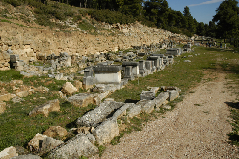 J. M. Harrington, personal digital image